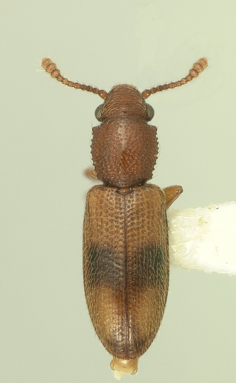 Dorsal habitus AutoMontage photo of Monanus concinnulus.